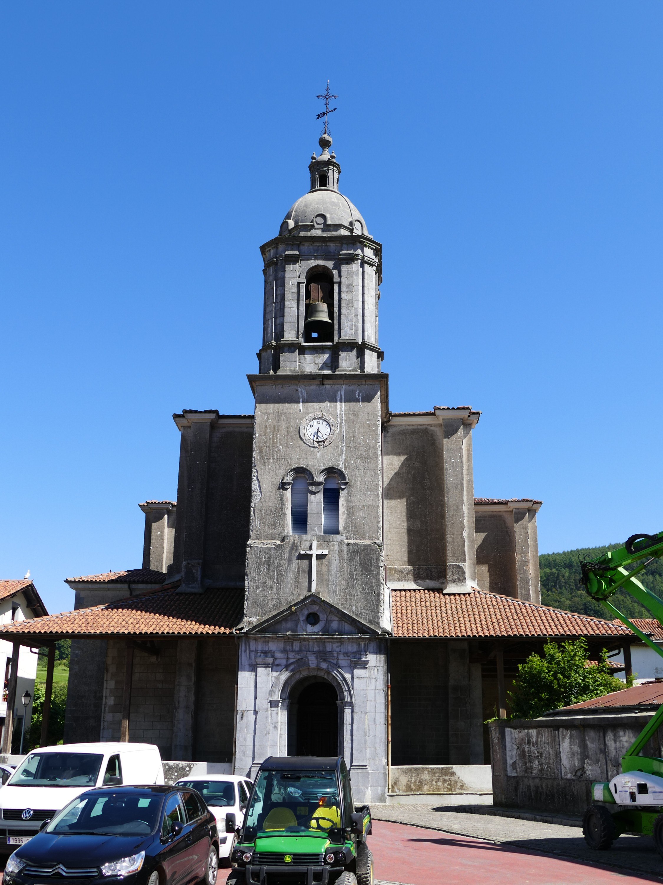 Saint-Bartolomew's church of Bidania in Bidania-Goiatz (Guipuscoa, Basque Country, Spain).